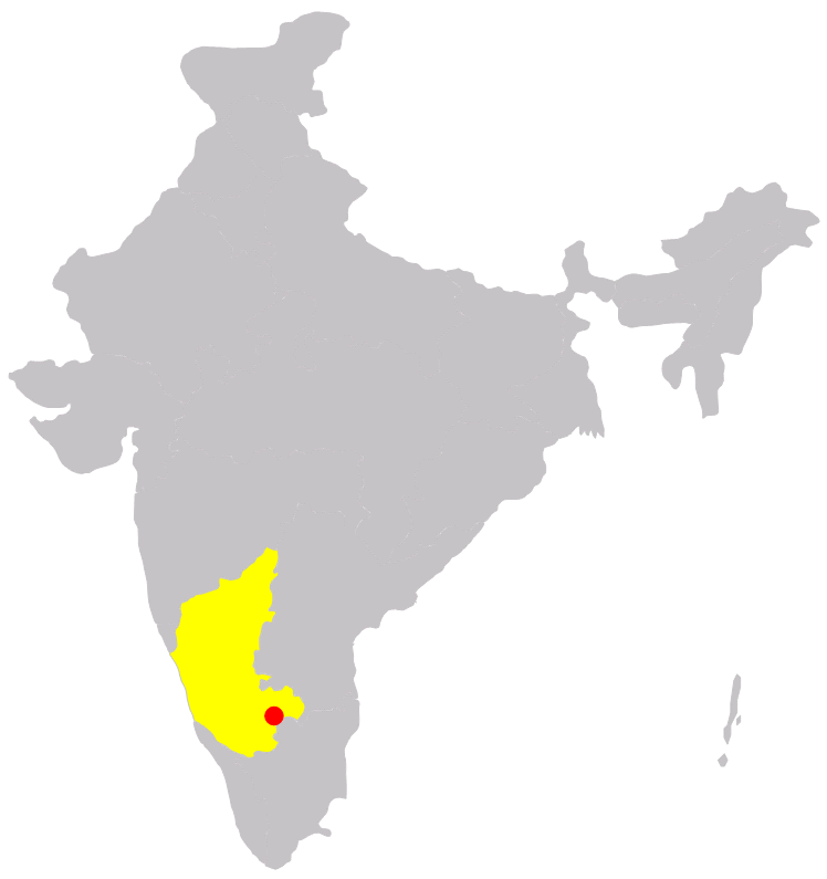 Description: position of Bangalore in India Source: own work Date: December 2005 Author: --Immanuel Giel 09:24, 19 December 2005 (UTC) Other versions: none